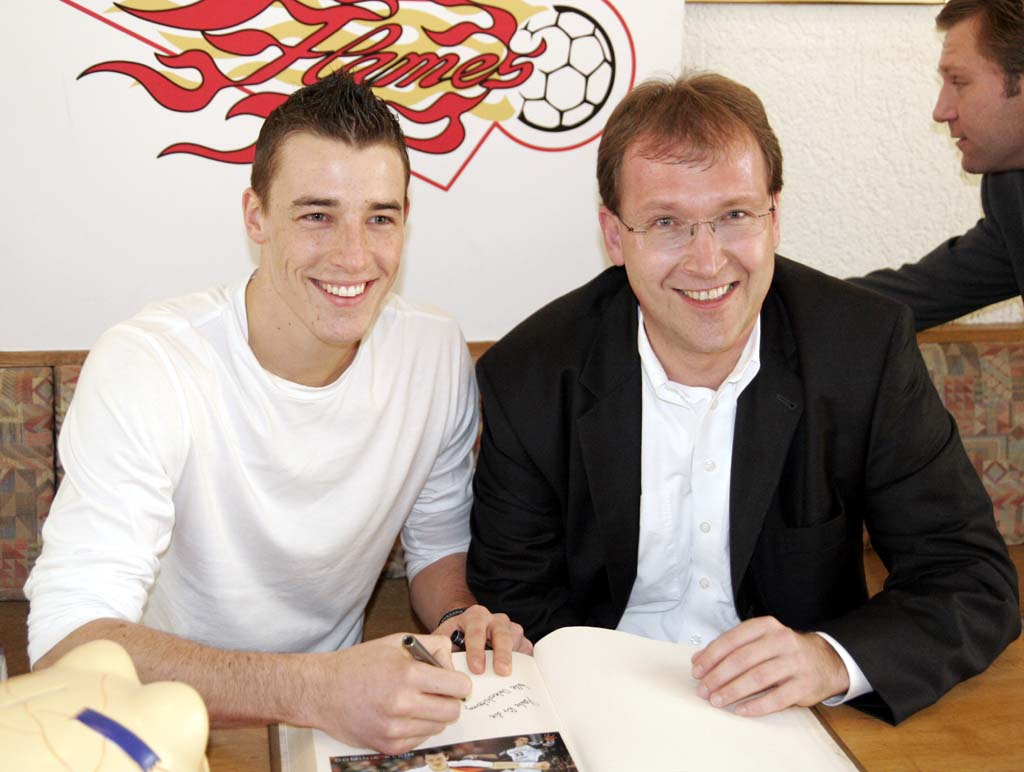 Dominik Klein, signs on March 10th 2007 the Golden Book of the city of Bensheim (Germany). On the right Bensheim's mayor Thorsten Herrmann